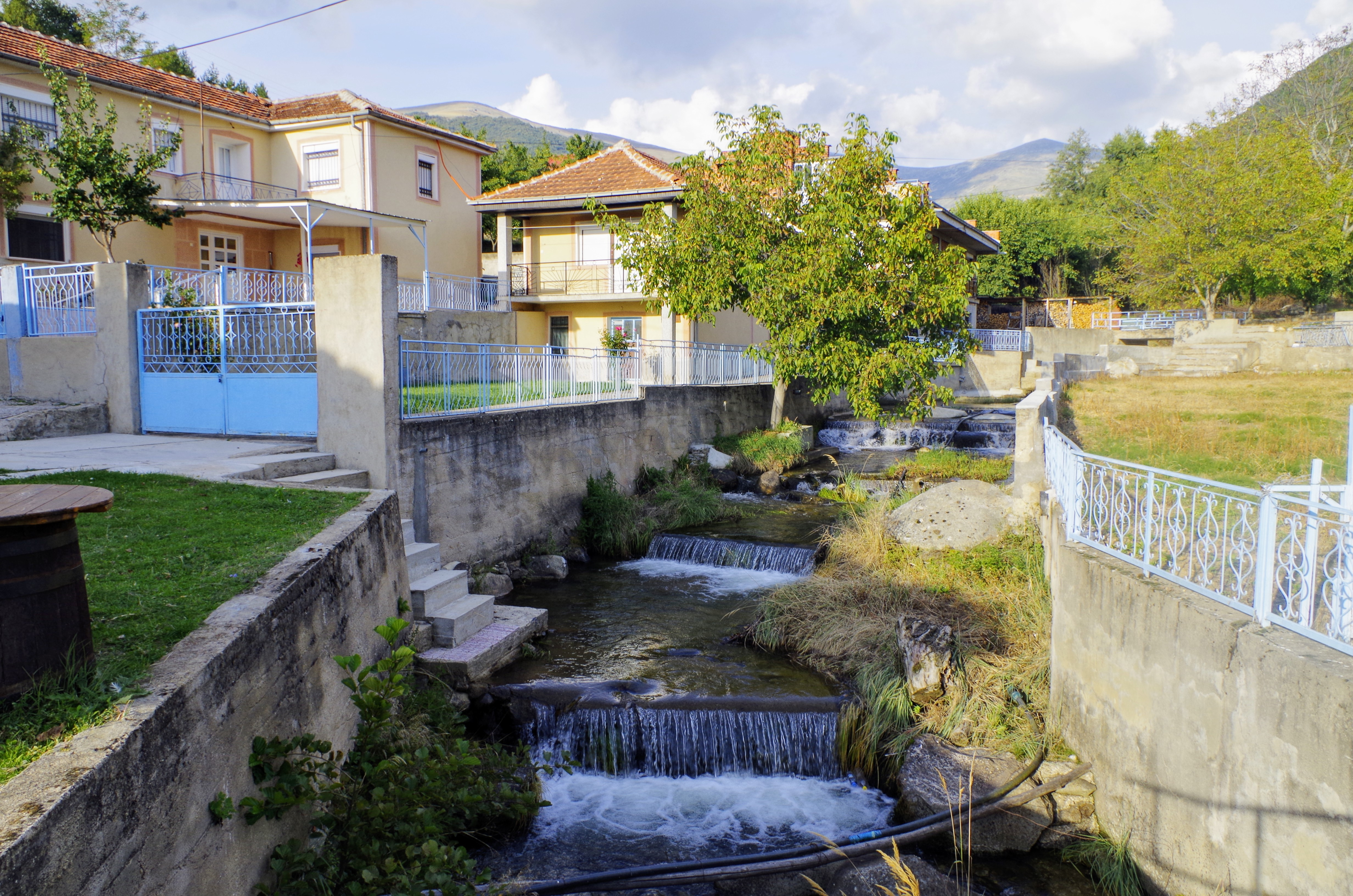 View of the Kranska River in the village Arvati